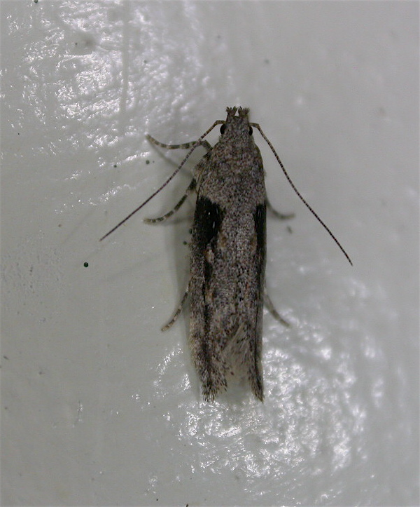 Symmetrischema tangolias, Dargaville, New Zealand, 26 October 2004